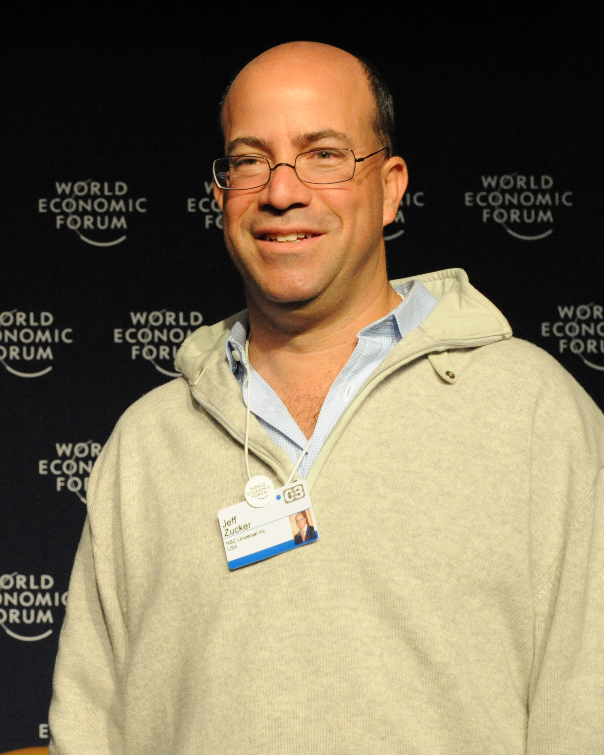 Jeff Zucker at the 2008 World Economic Forum.Jeff Zucker, CEO of NBC Universal